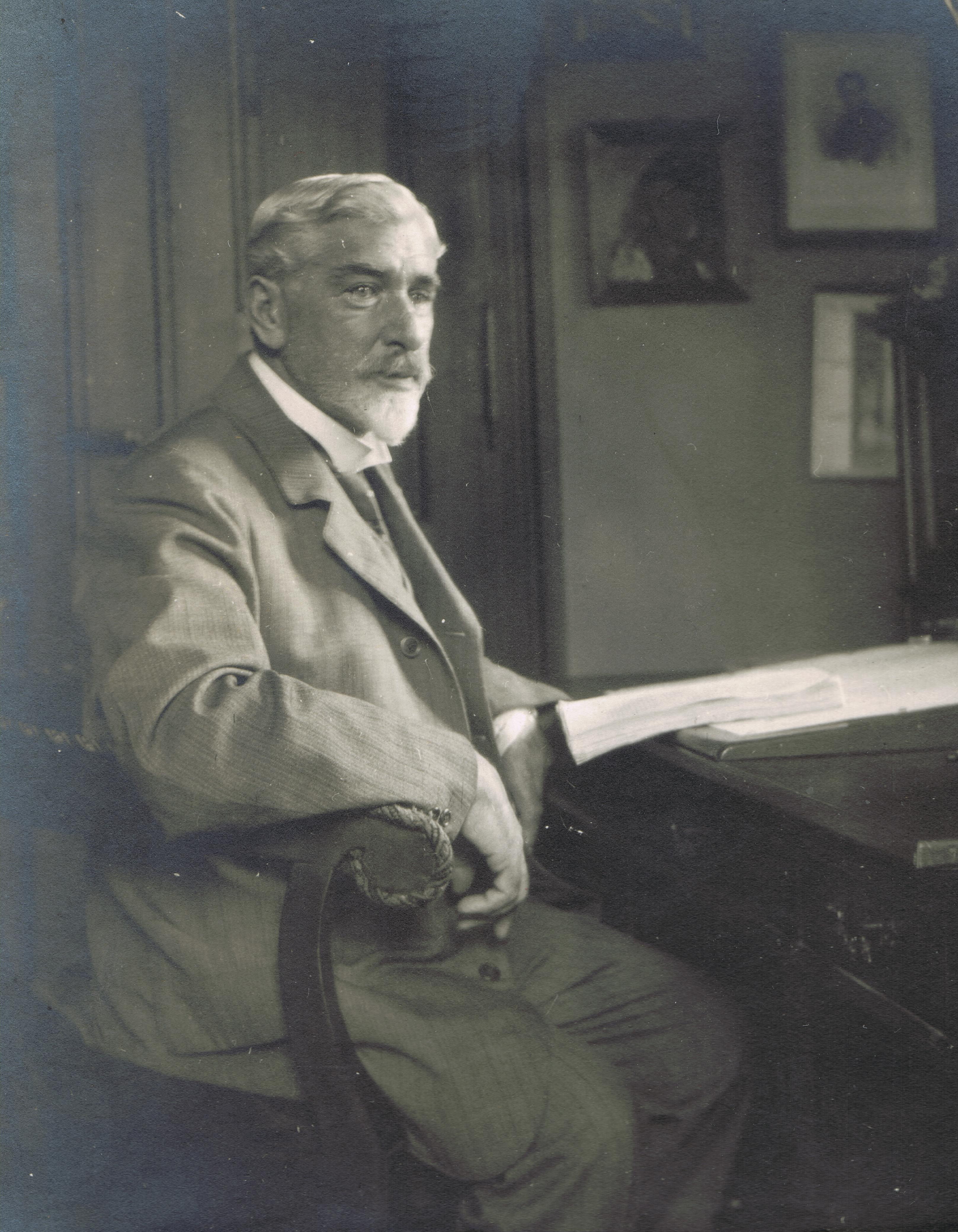 Dr. med. Felix Martin Oberlaender * 8. January 1851 in Dresden/Saxonia; + 2. October 1915 in Dresden, physician, urologist GND: 117588180 VIAF: 122194540